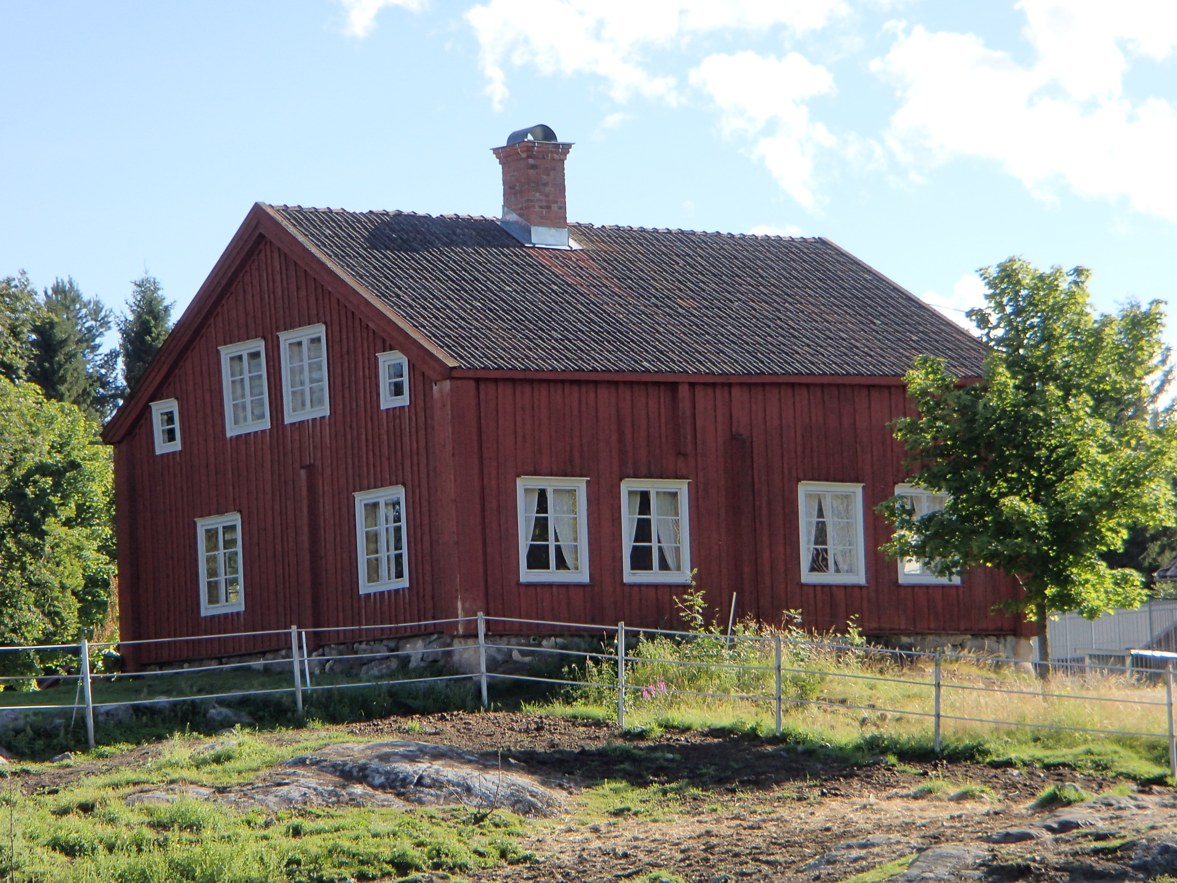 The house of "Bjärtrå kungsgård" at Kungsgården 137 in Bjärtrå, Kramfors Municipality